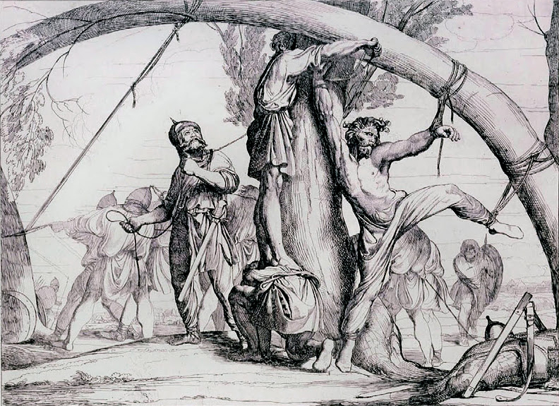 Death of ancient Russian knyaz Igor.